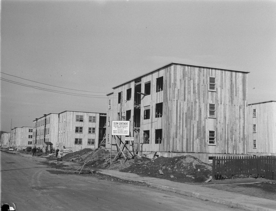 For documentary purposes the original description provided by BAnQ has been retained. Additional descriptive text may be added by Wikimedians with the wiki description = parameter, but please do not modify the other fields.